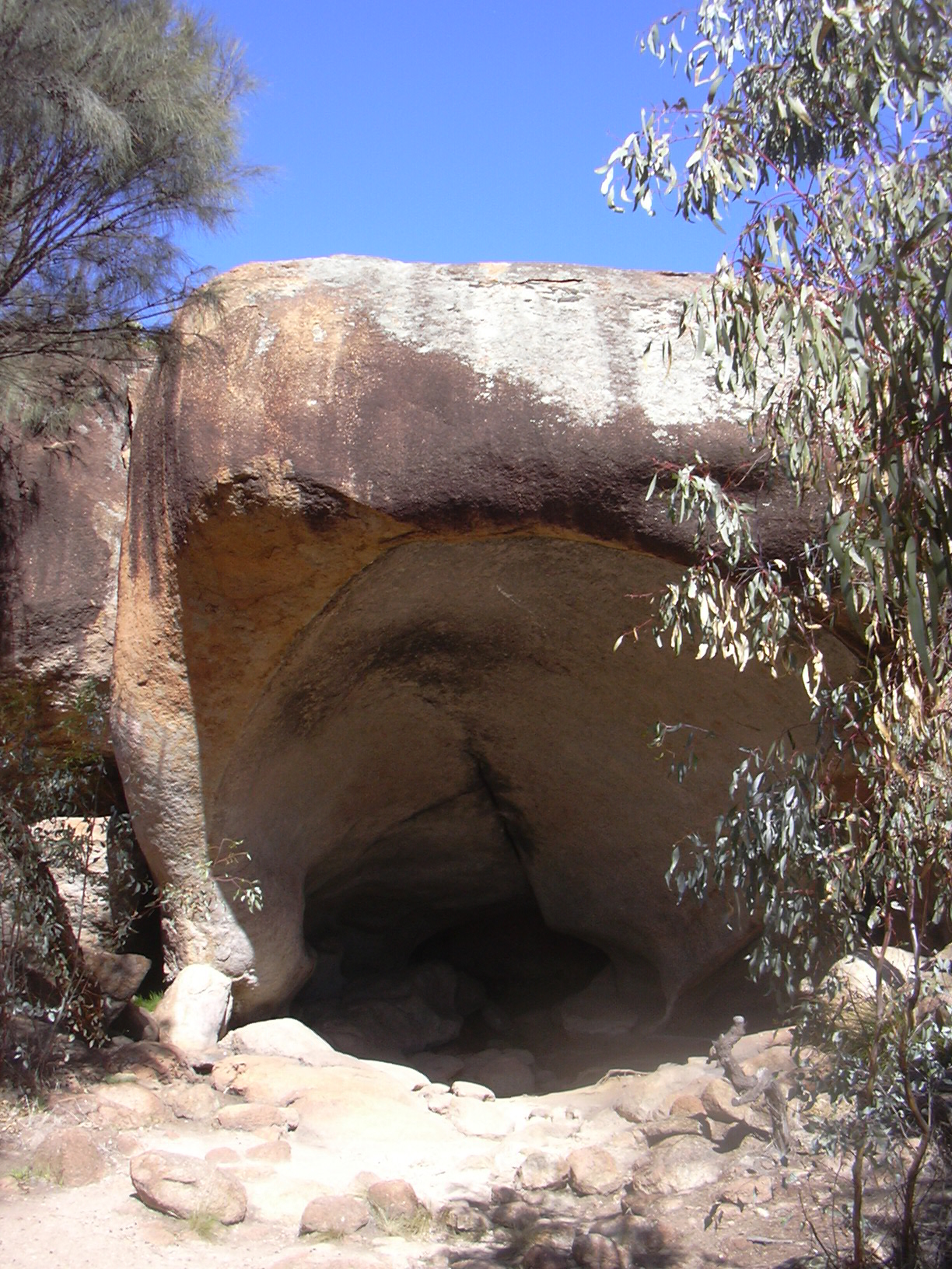 Hippo's Yawn (Western Australia)